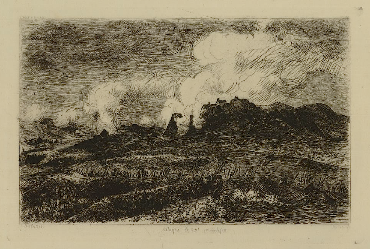 Attaque de nuit (Moulin Saquet), aquatint, dim: 15.6 x 23.3 cm. IV on XII of the serie printed by Paris: Cadart et Luce from: Paris et ses avant-postes pendant le siège.